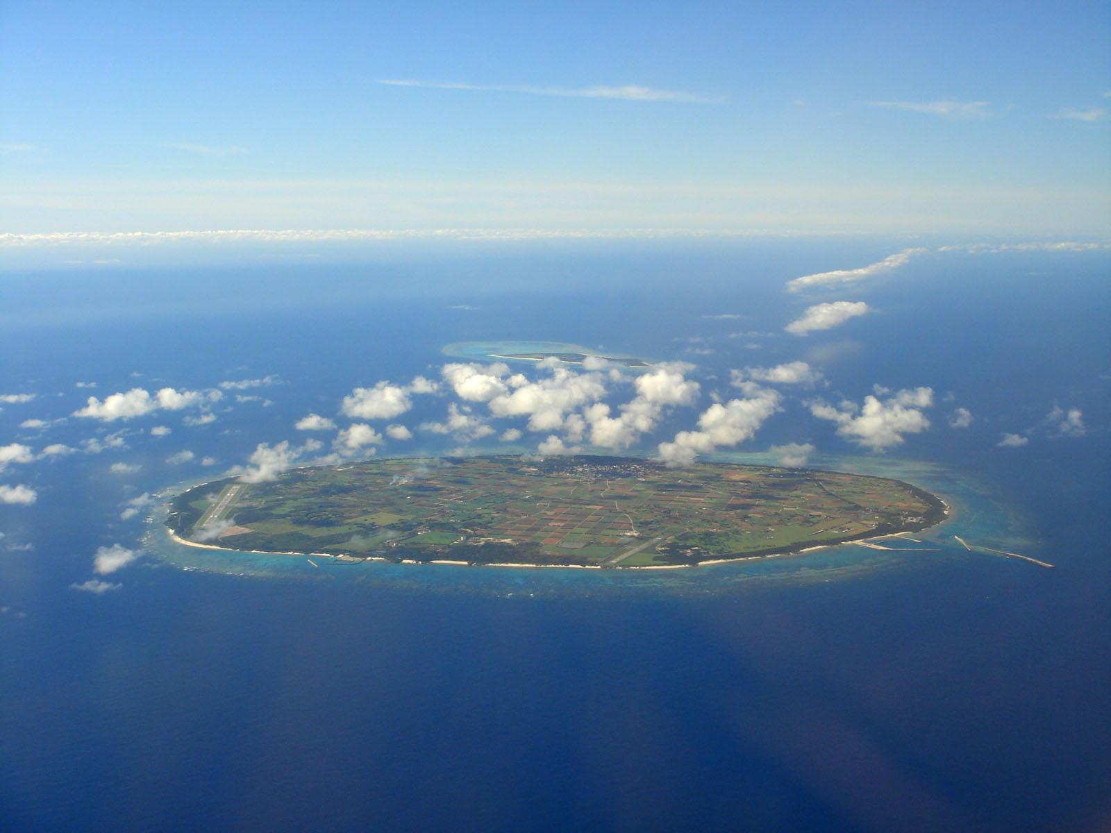 Tarama Island (front) and Min'na Island (back), Okinawa, Japan.